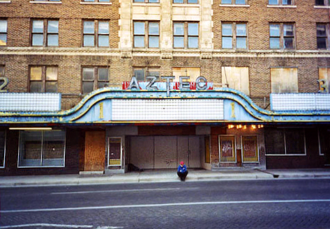 Outside of Aztec Theatre in San Antonio, Texas, USA, when closed before renovations. Photo taken on 21 December 2003.